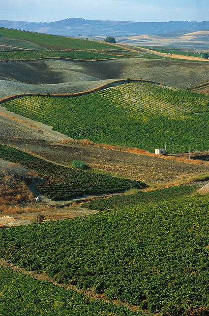 Vineyards in Sicily, Italy.